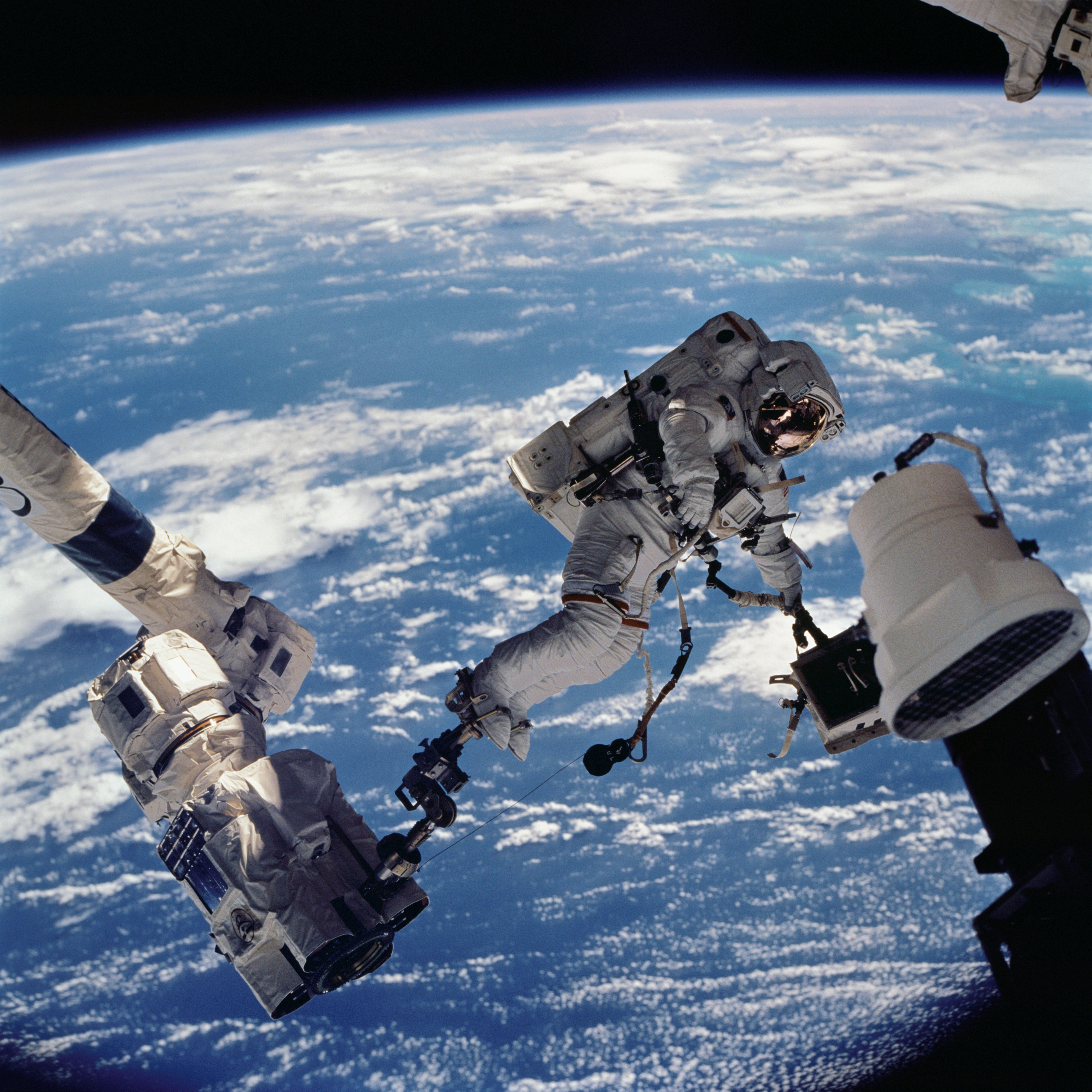 Astronaut David A. Wolf, STS-112 mission specialist, anchored to a foot restraint on the Space Station Remote Manipulator System (SSRMS) or Canadarm2, carries the Starboard One (S1) outboard nadir external camera. The camera was installed on the end of the S1 Truss on the International Space Station (ISS) during the mission�s first scheduled session of extravehicular activity (EVA).